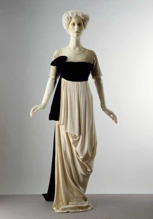 Evening dress, designed about 1912, Lucile (1863-1935) V&A Museum no. T.31-1960 Techniques - Satin, trimmed with chiffon and machine-made lace; cummerbund of silk velvet; bodice lined with grosgrain and supported with whalebone Place - London, England In 1960 the Museum acquired a cross-section of Miss Heather Firbank's wardrobe dating from the early 1900s to 1920. The particularly distinctive garments include understated pastel-coloured day dresses, immaculately tailored suits and graceful evening dresses, such as this satin gown. It reveals Lucile (Lady Duff Gordon) in a fairly restrained mood. The long slit skirt is especially interesting, although its draped construction is not too revealing despite Lady Duff Gordon's claim that she had 'loosed upon a startled London . . . draped skirts that opened to reveal the legs'. Lucile was born Lucy Sutherland in London in 1863. She began dressmaking for friends, and in 1891 opened her own fashion house. She married Sir Cosmo Duff Gordon in 1900. Lady Duff Gordon became a celebrated fashion designer with branches in New York (1909), Chicago (1911) and Paris (1911). She was famous for her clever use of fabrics to create soft and harmonious effects, subtle colour schemes and romantic dresses, particularly suited to evening wear. As she wrote in Discretions and Indiscretions (1932): 'For me there was a positive intoxication in taking yards of shimmering silks, laces airy as gossamer and lengths of ribbons, delicate and rainbow-coloured, and fashioning of them garments so lovely that they might have been worn by some princess in a fairy tale'. Worn by Miss Heather Firbank